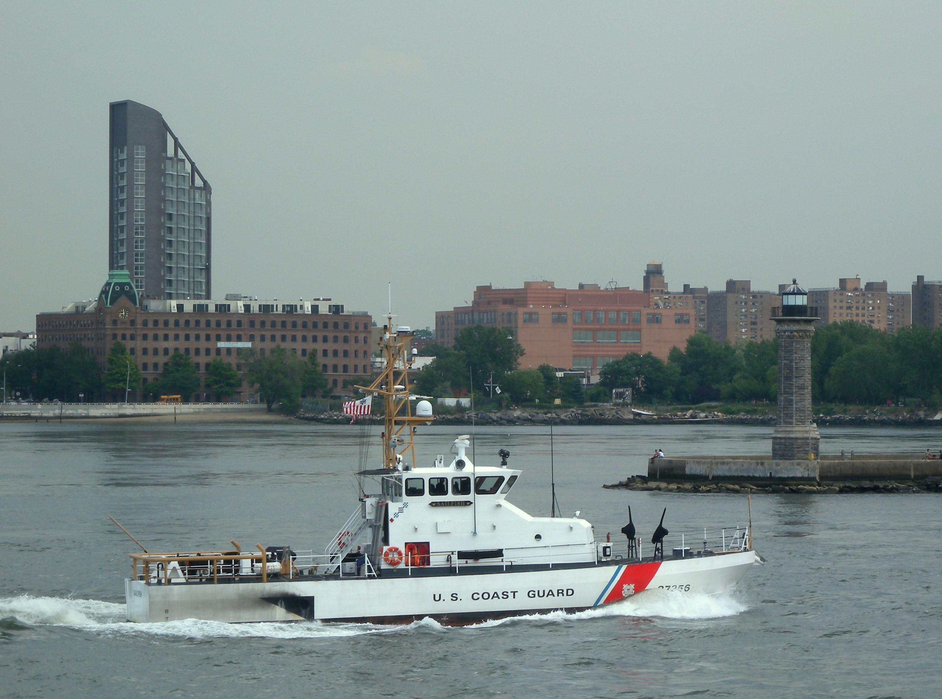 Looking east as USCG Sailfish passes piano factory and lighthouse in East River.